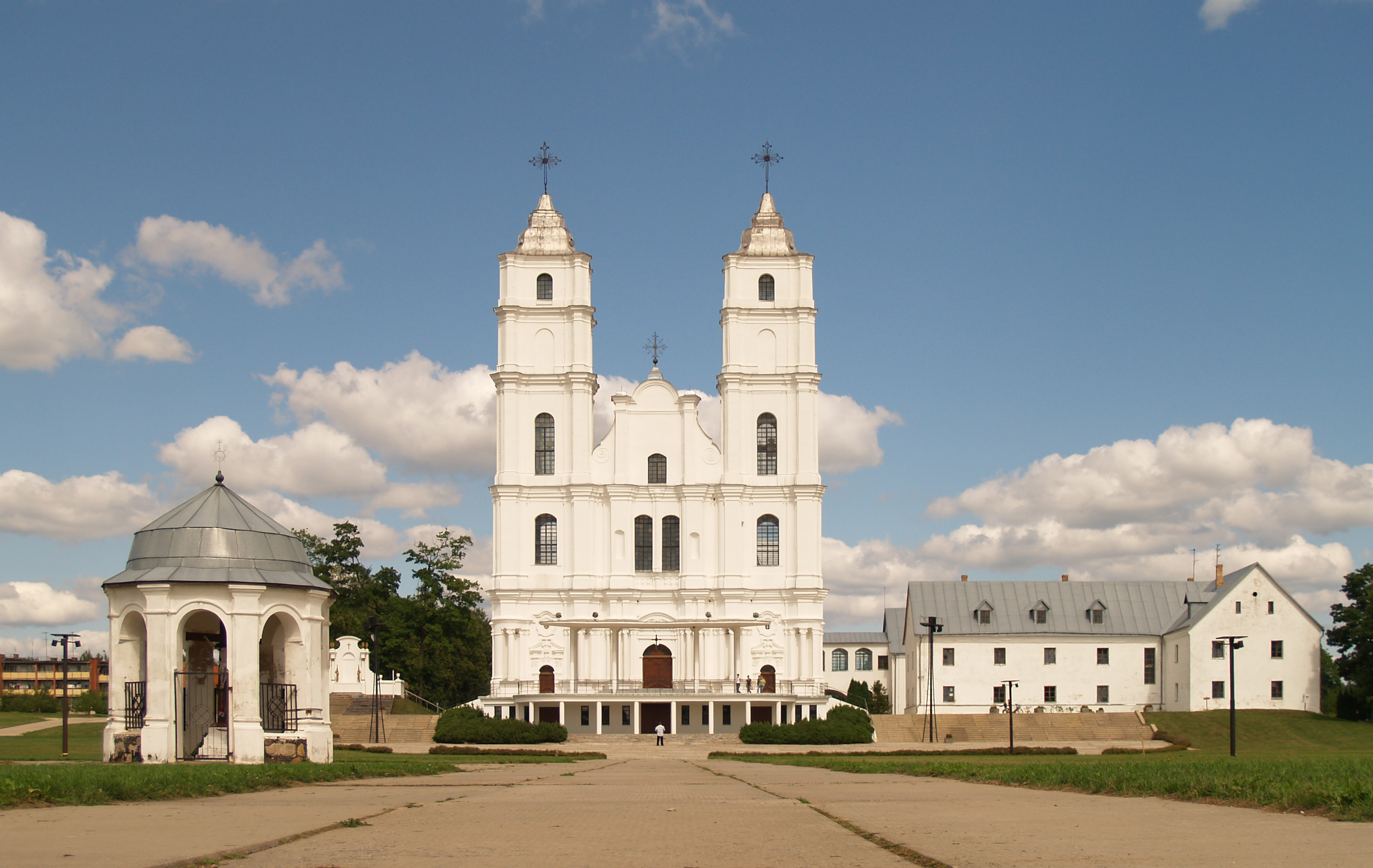 Aglona Catholic Basilica in the village of Aglona, Latvia.